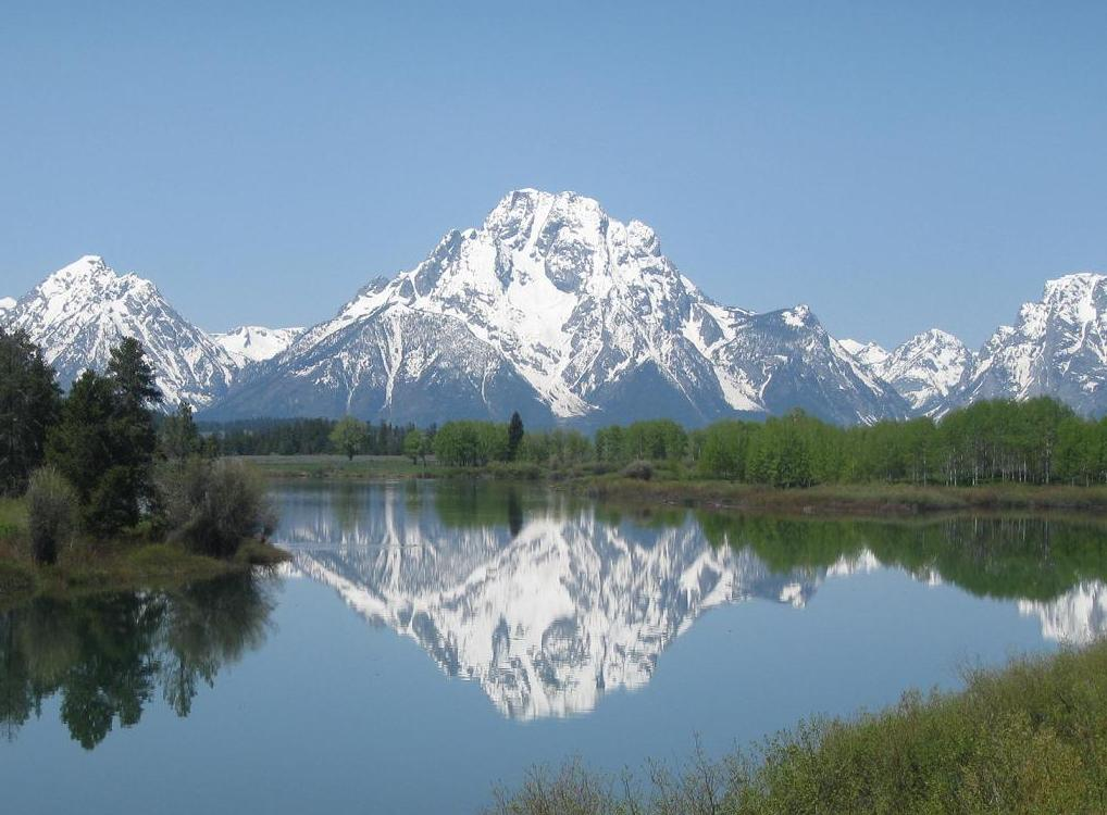 Mount Moran and Snake River at Oxbow Bend in Grand Teton National Park